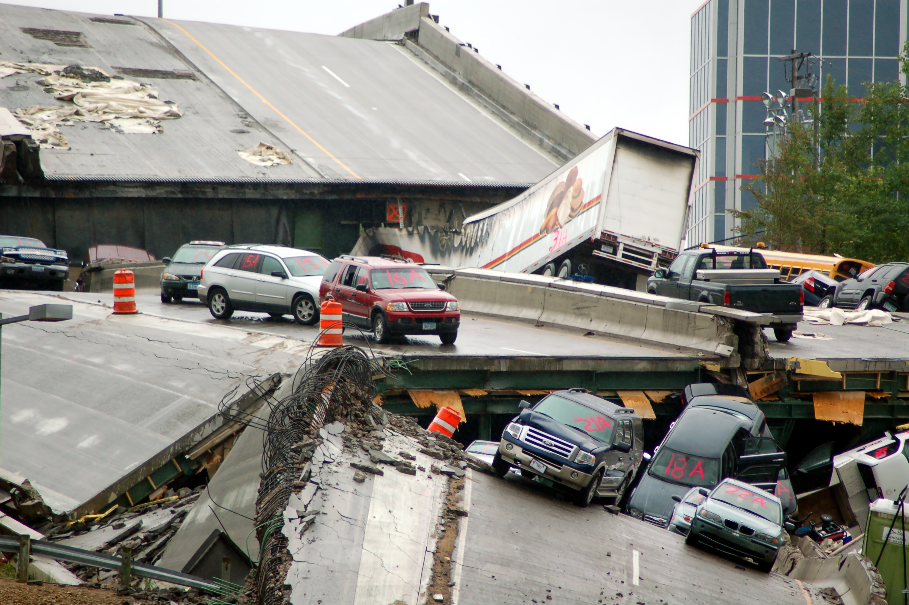 Cars rest on the collapsed portion of I-35W Mississippi River bridge, after the August 1st, 2007 collapse. This was featured as one of the 12 most powerful photos of 2007 on ABC News online.[1]